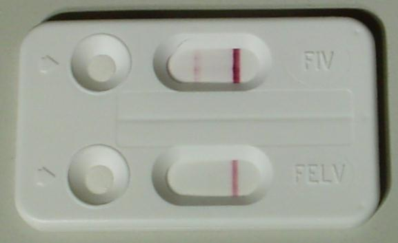 FIV-Quicktest (positive), FeLV-Quicktest (negative); test-principle: Immunochromatography